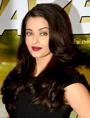 Rai promoting jazbaaa in 2016